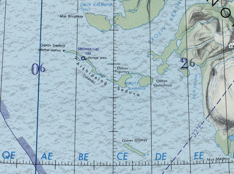 Sedov Islands. Section of 1:1,000,000 scale Operational Navigation Chart, Sheet B-3, 2nd edition.